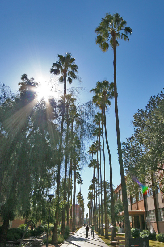 Palm Walk at Arizona State University. Washingtonia robusta - Mexican Fan Palms are planted as an Avenue (landscape) garden design element.